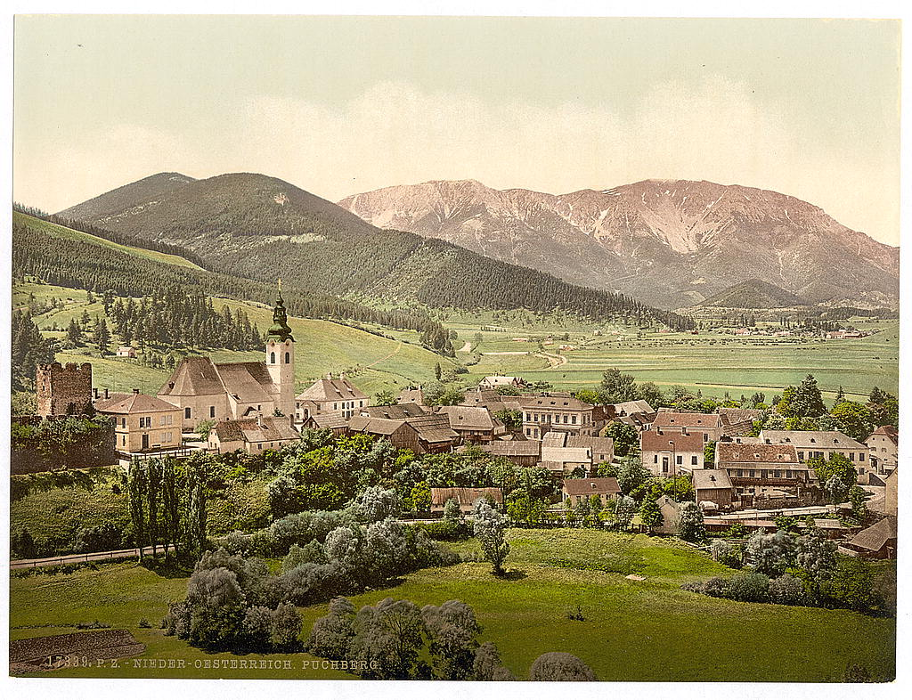 Puchberg am Schneeberg, general view, Lower Austria, Austro-Hungary.